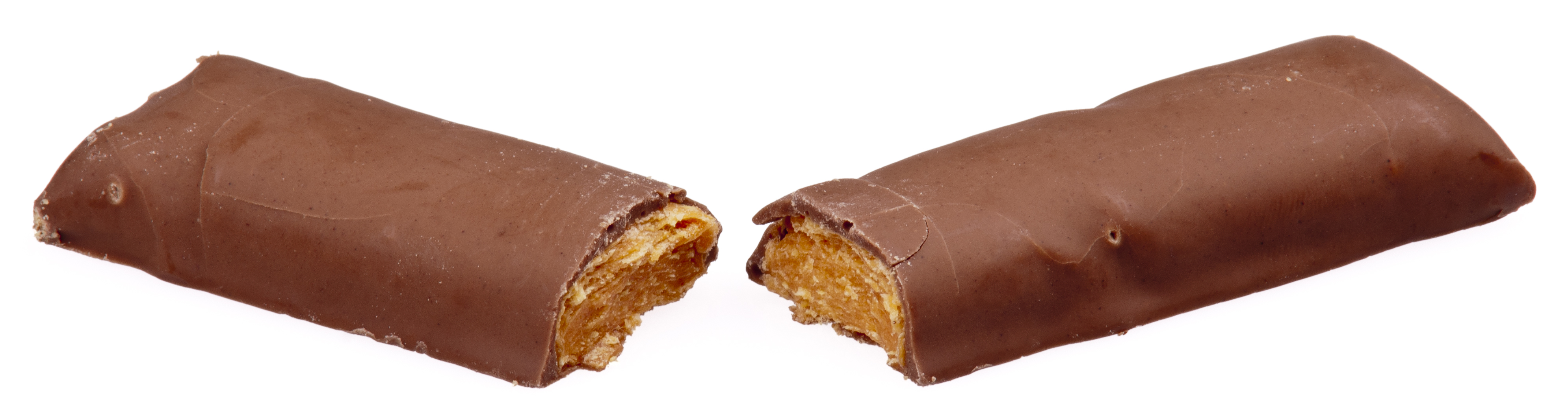 A Butterfinger candy bar, broken in half.